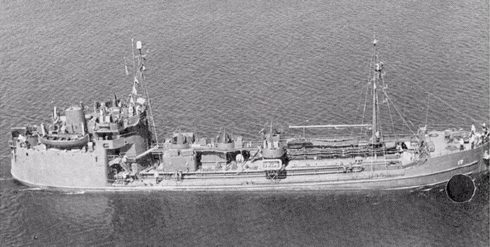 USS Mattawee (AOG-17) underway, date and place unknown. US Navy photo